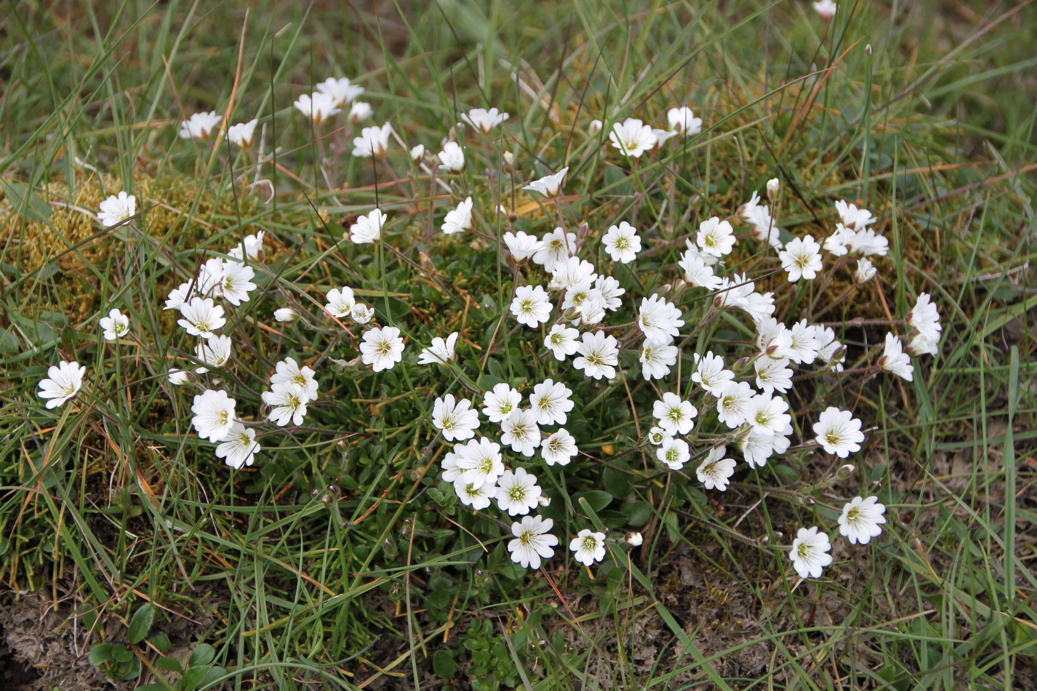 Flowers observed close to Longyearbyen at central Spitsbergen, Svalbard.